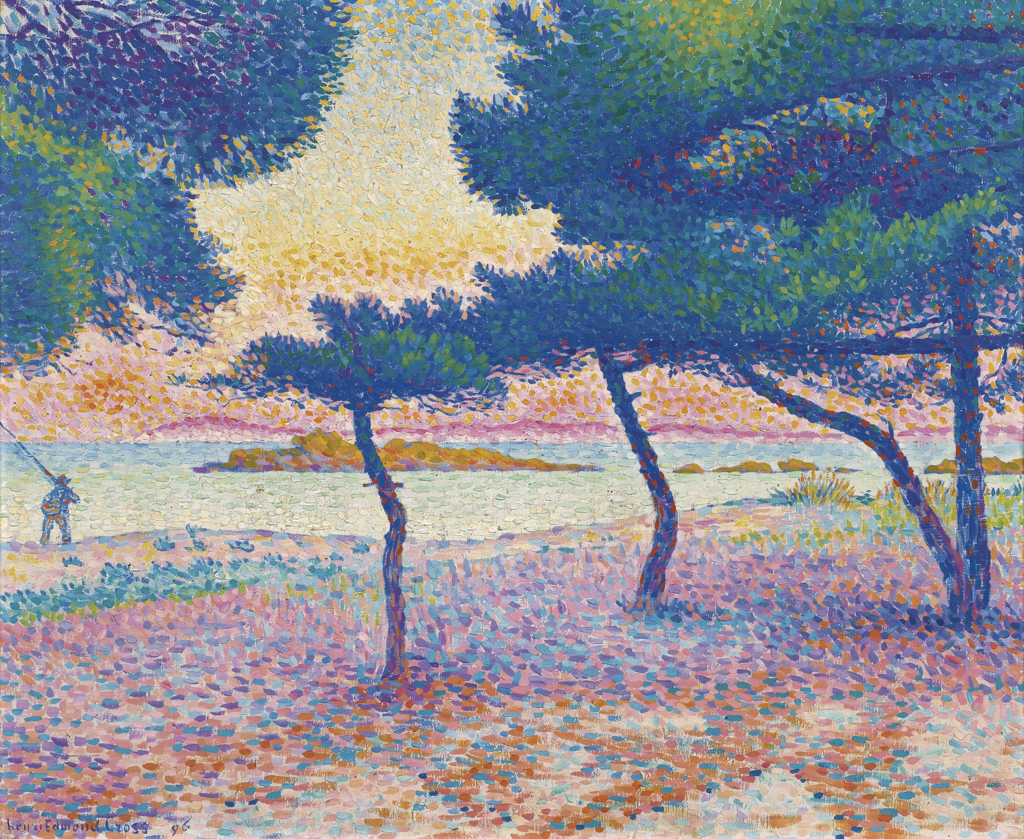 HENRI EDMOND CROSS (1856 - 1910), LA PLAGE DE SAINT-CLAIR, signed Henri Edmond Cross and dated 96 (lower left), oil on canvas, 54.5 by 65.4cm. Painted in 1896.